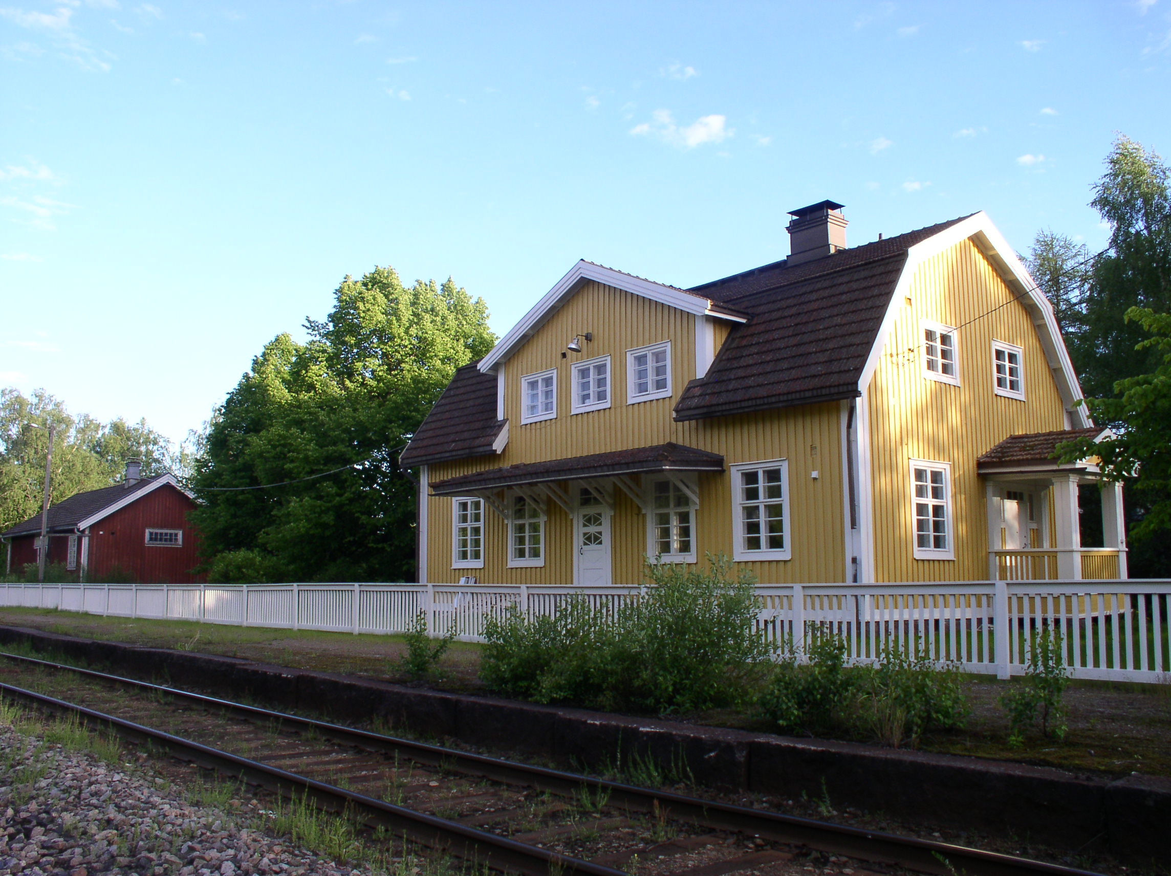 Vinkkilä railway station (out of use) in Vehmaa, Finland.